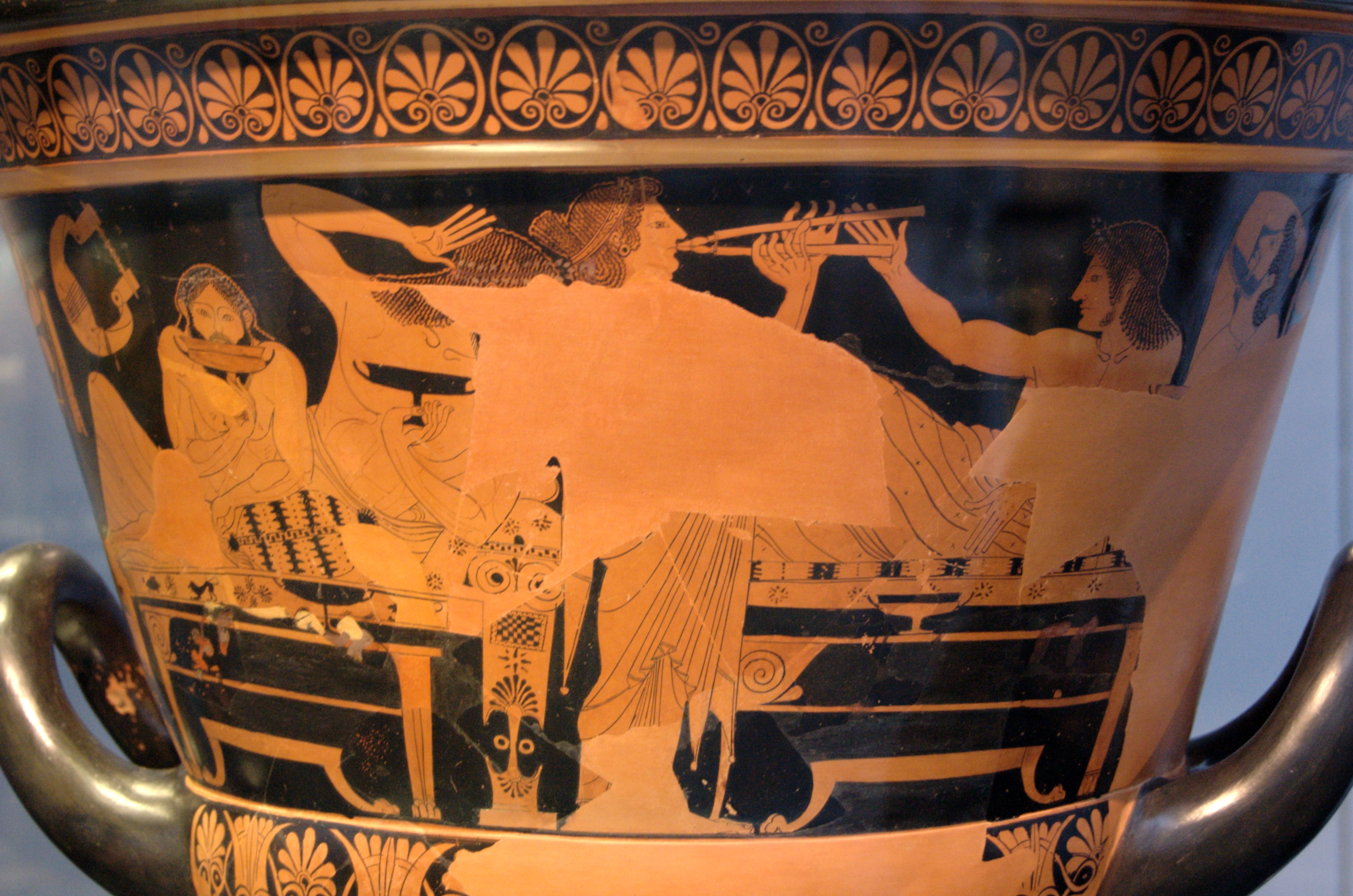 Symposium scene. Side A of an Attic red-figure kalyx-krater, 510–500 BC.